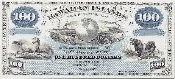 A banknote issued for circulation in the Kingdom of Hawai'i (now in the United States of America).